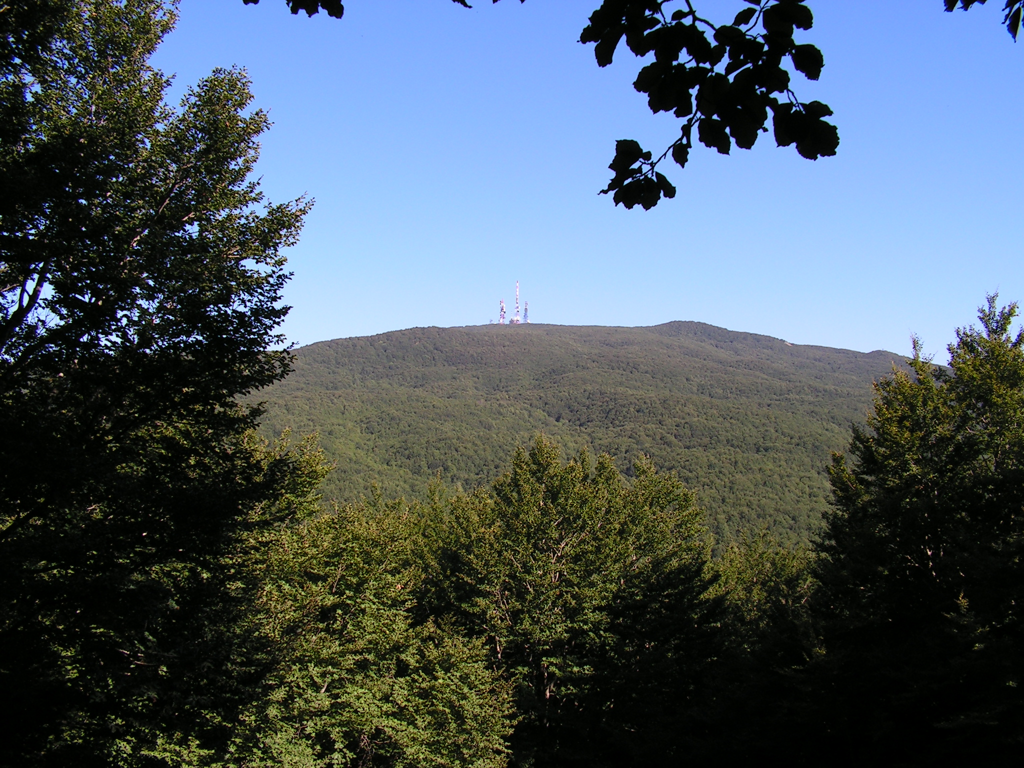 Monte Soro is a mountain reaching 1847 meters located in south-eastern Sicily